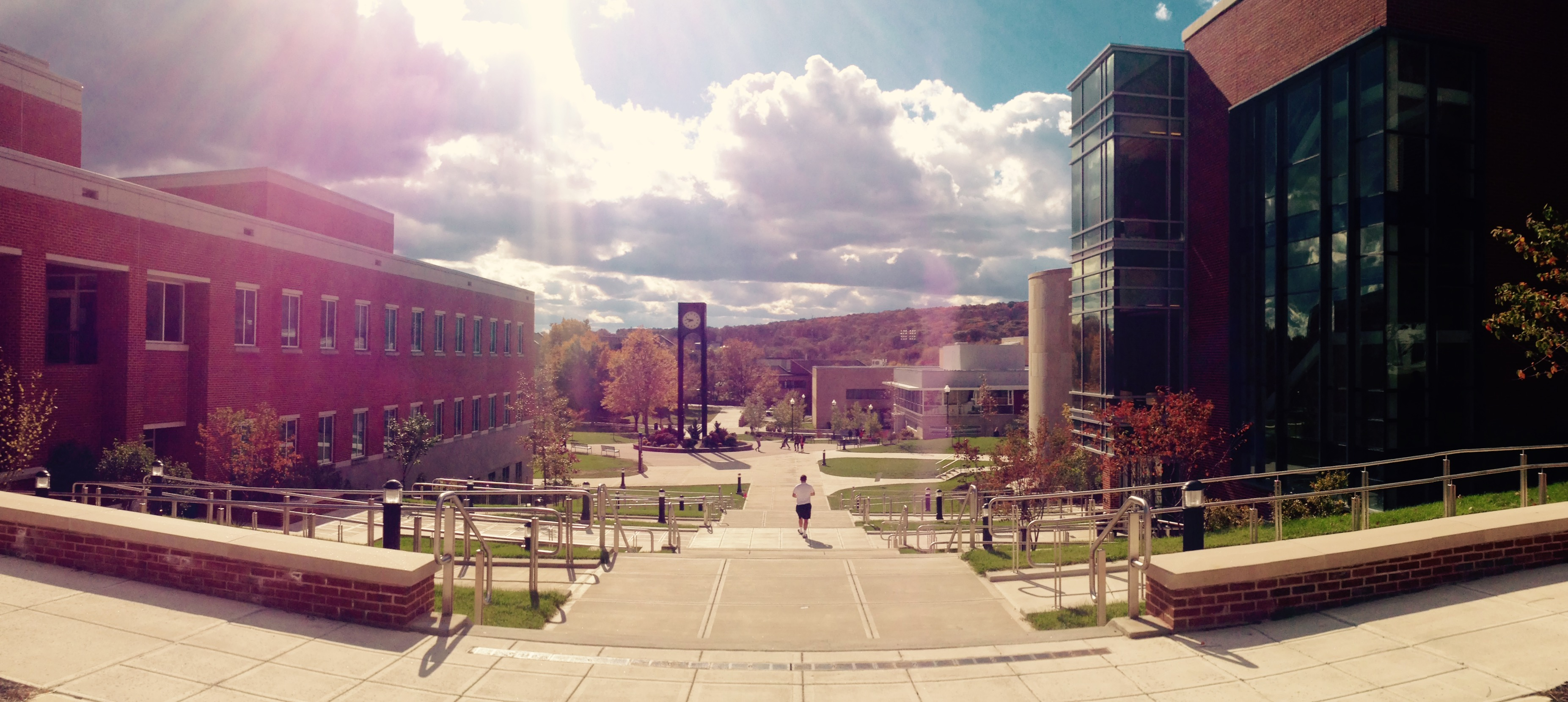 Performing Arts Center to the left and the Gira Center to the right